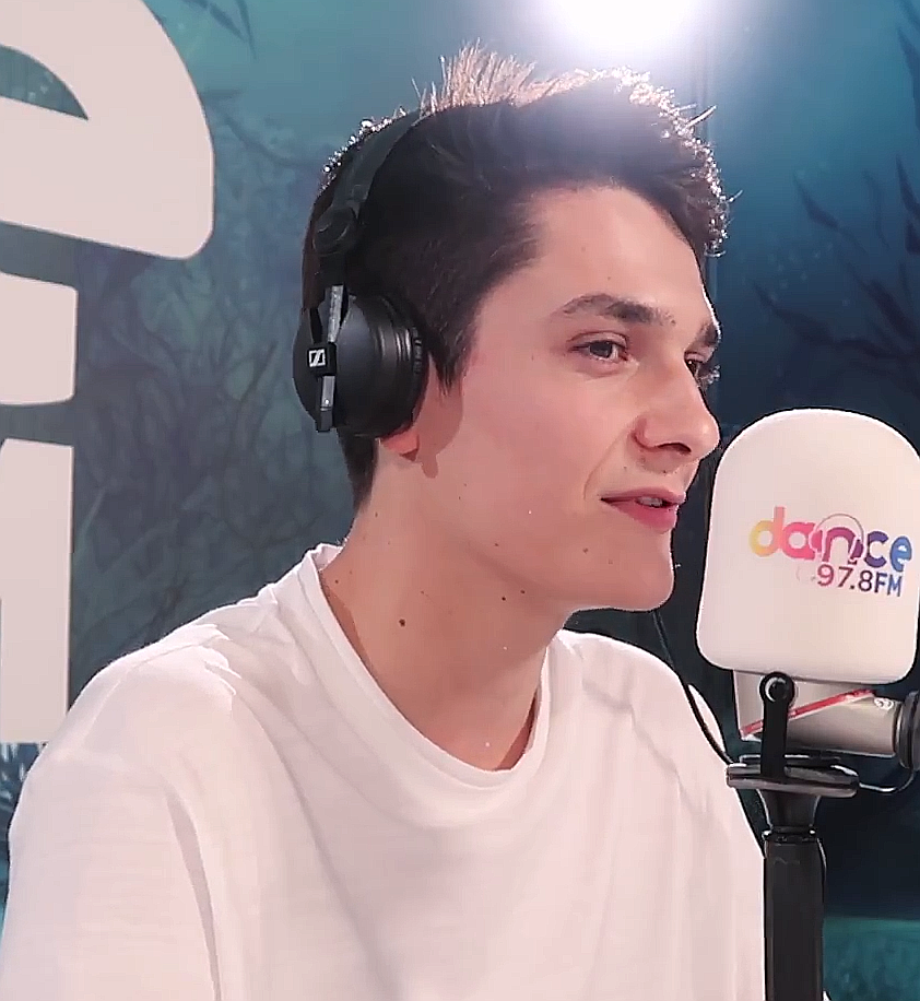 Kungs doing an interview with Dance FM on 97.8FM